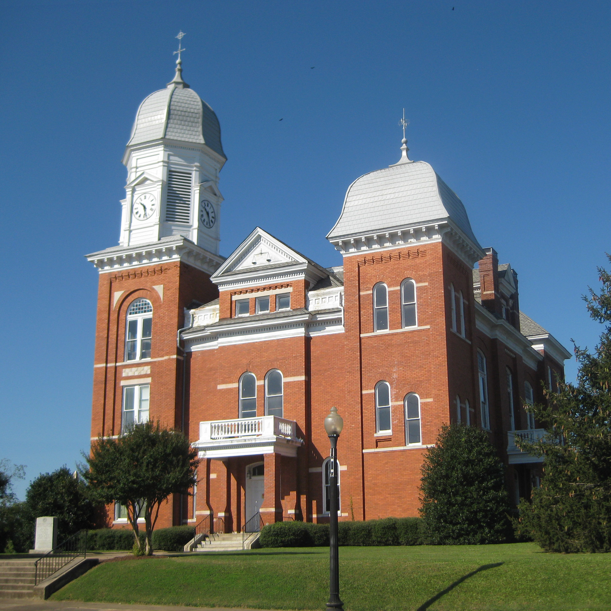 Eastern face of the 1902 courthouse and clock tower in Taliaferro County, Georgia.